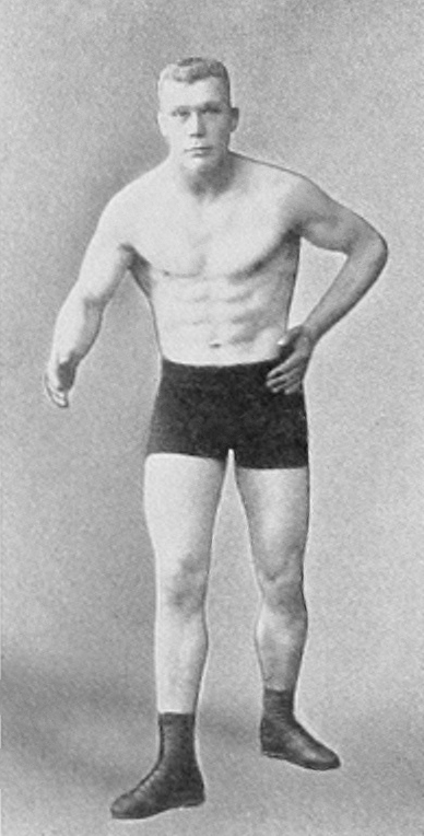 Ivar Böhling at the 1912 Summer Olympics